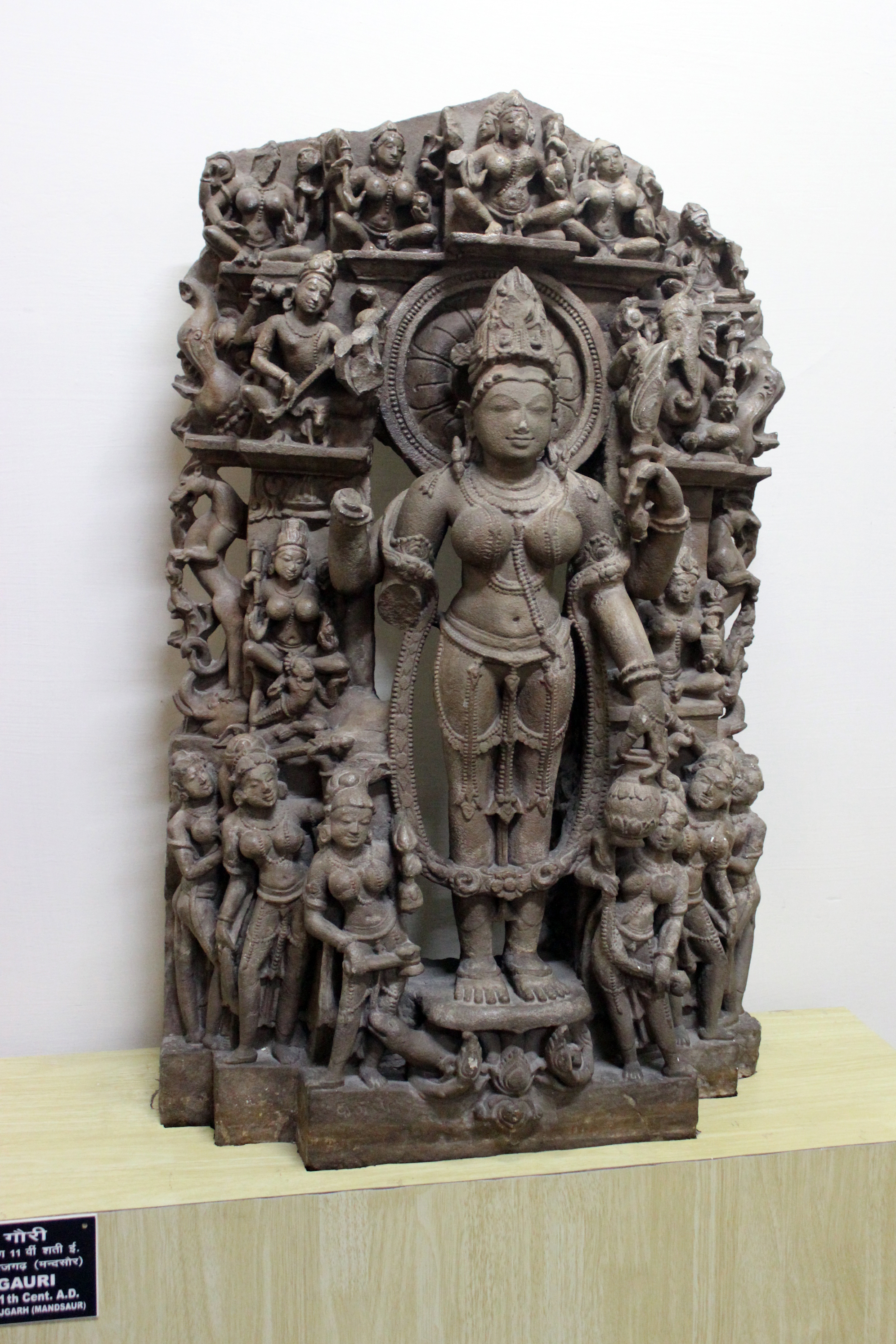 Gauri Statue Mandsour India